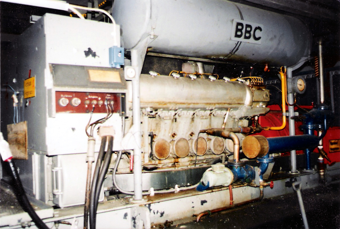 A diesel generator in a demagnetation station at Lonna island